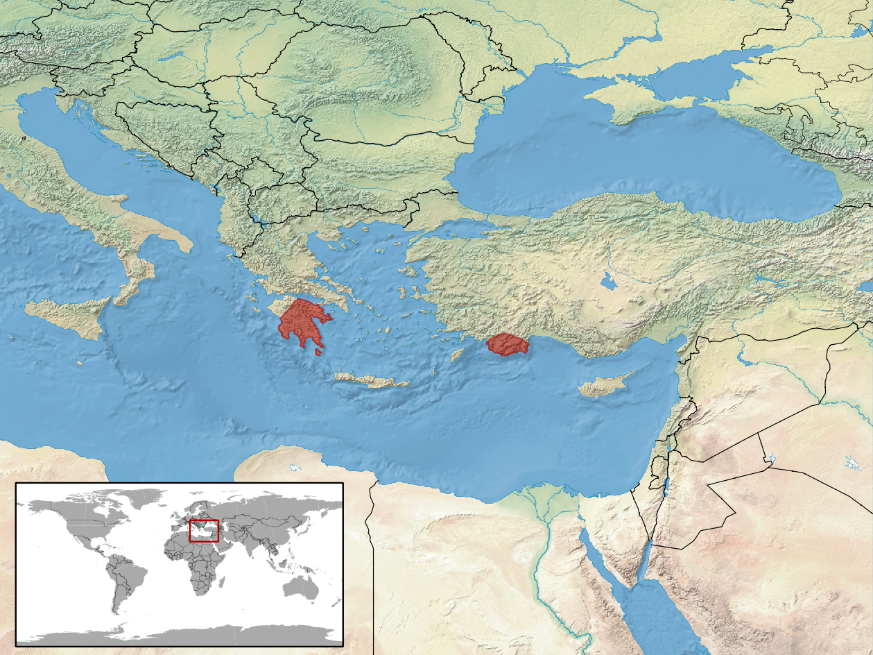 geographic distribution of Ophiomorus punctatissimus